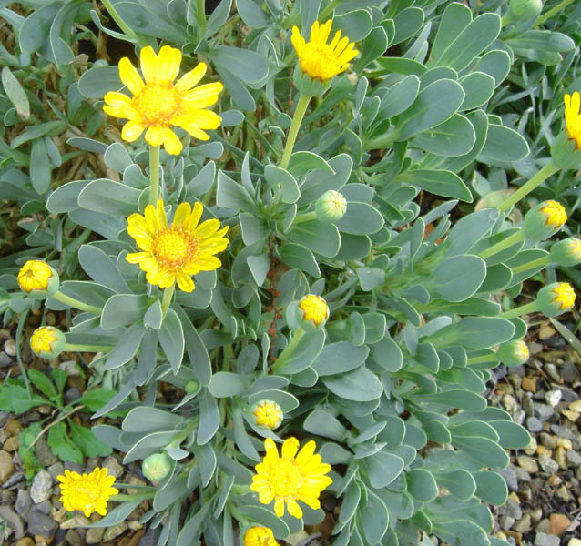 Hertia cheirifolia